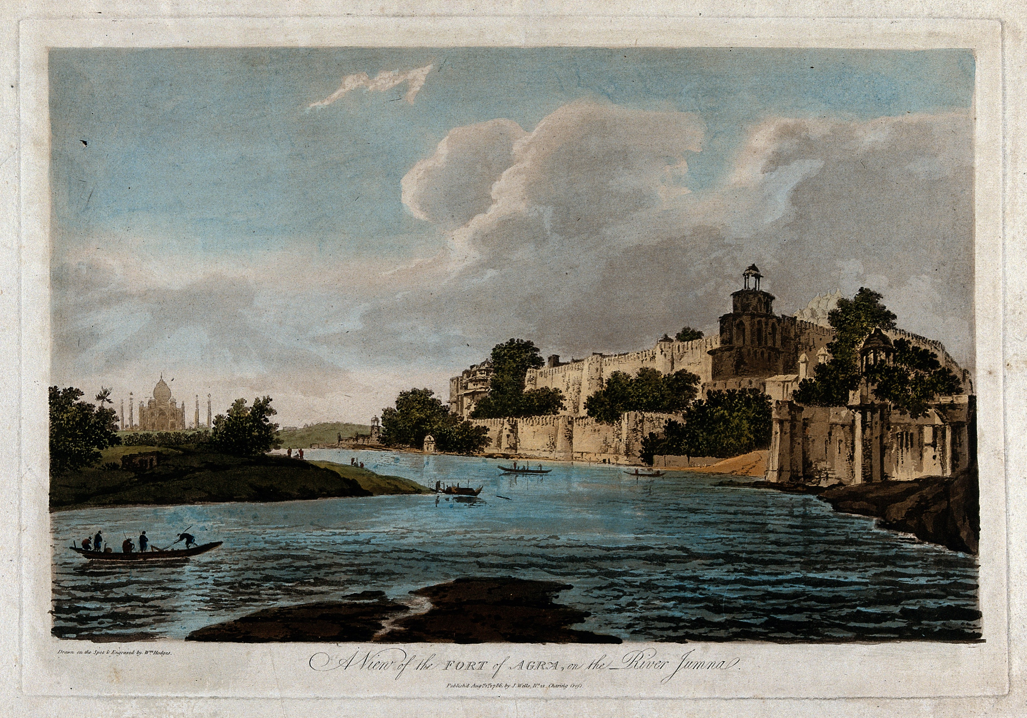 Fort at Agra, seen from the river Yamuna, Uttar Pradesh. Coloured etching by William Hodges, 1786. Iconographic Collections Keywords: William Hodges